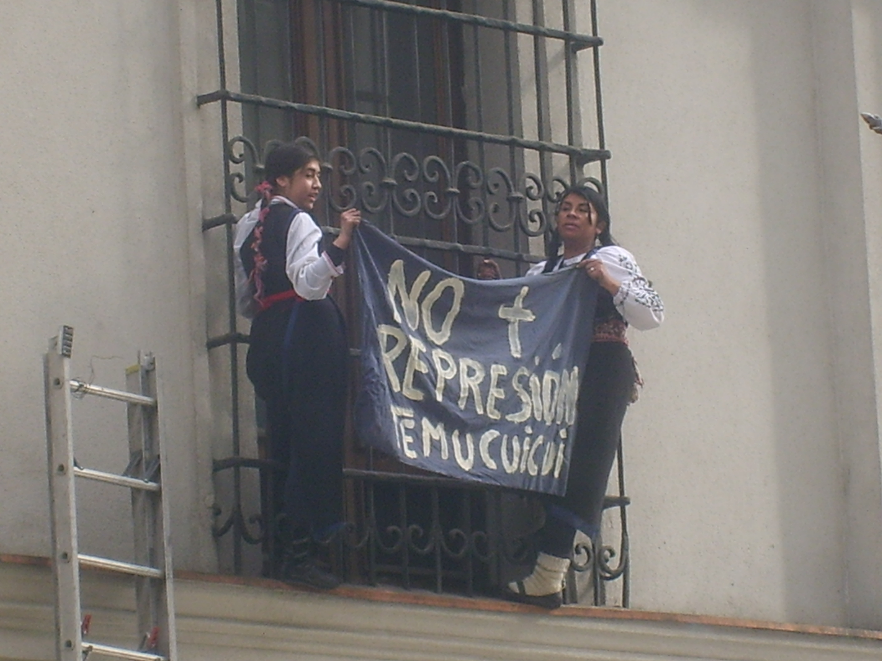 Two Mapuche women protesting in Palacio de la Moneda, Santiago de Chile.